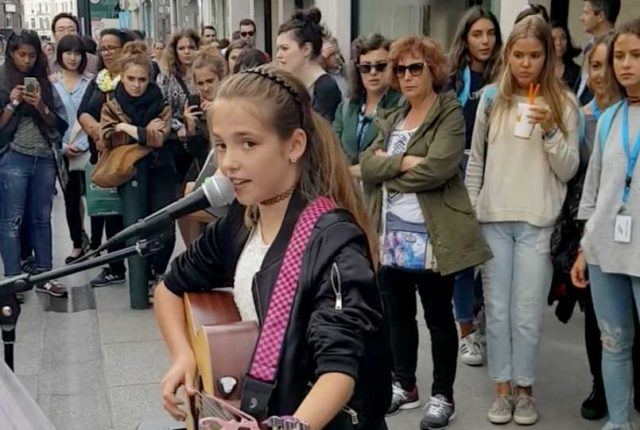 Allie Sherlock performing.